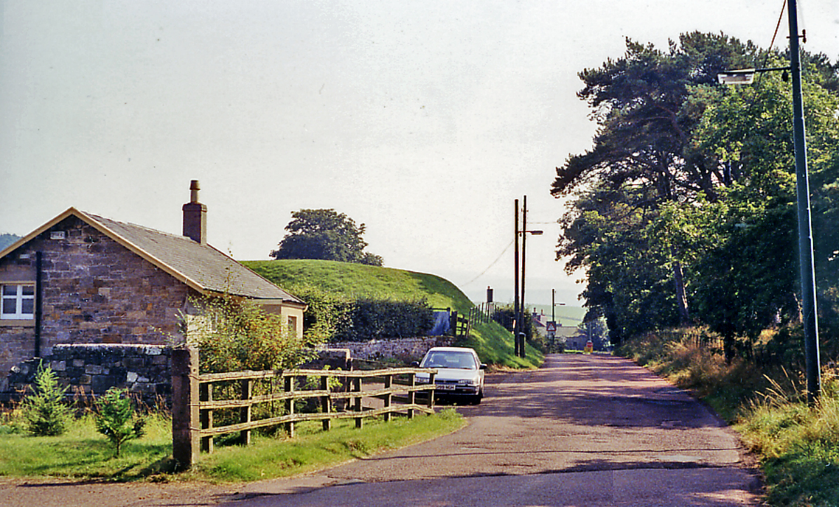 Site of Coulter station. View southwards, towards Culter village, across the former level-crossing of the ex-Caledonian Railway branch Symington (to right) - Broughton (to left) - Peebles. Coulter station and the branch were closed to passengers 5/6/50, goods continued Broughton - Peebles until 7/6/54, at Coulter until 1/3/65 and Symington - Broughton until 4/4/66.